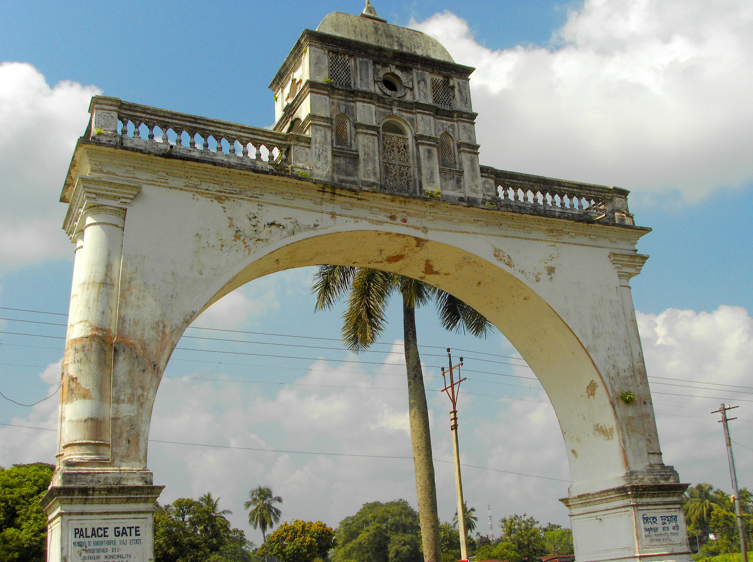 This is the main entrance to the Palace. And since time back it is one of the heritage monument of Jalpaiguri